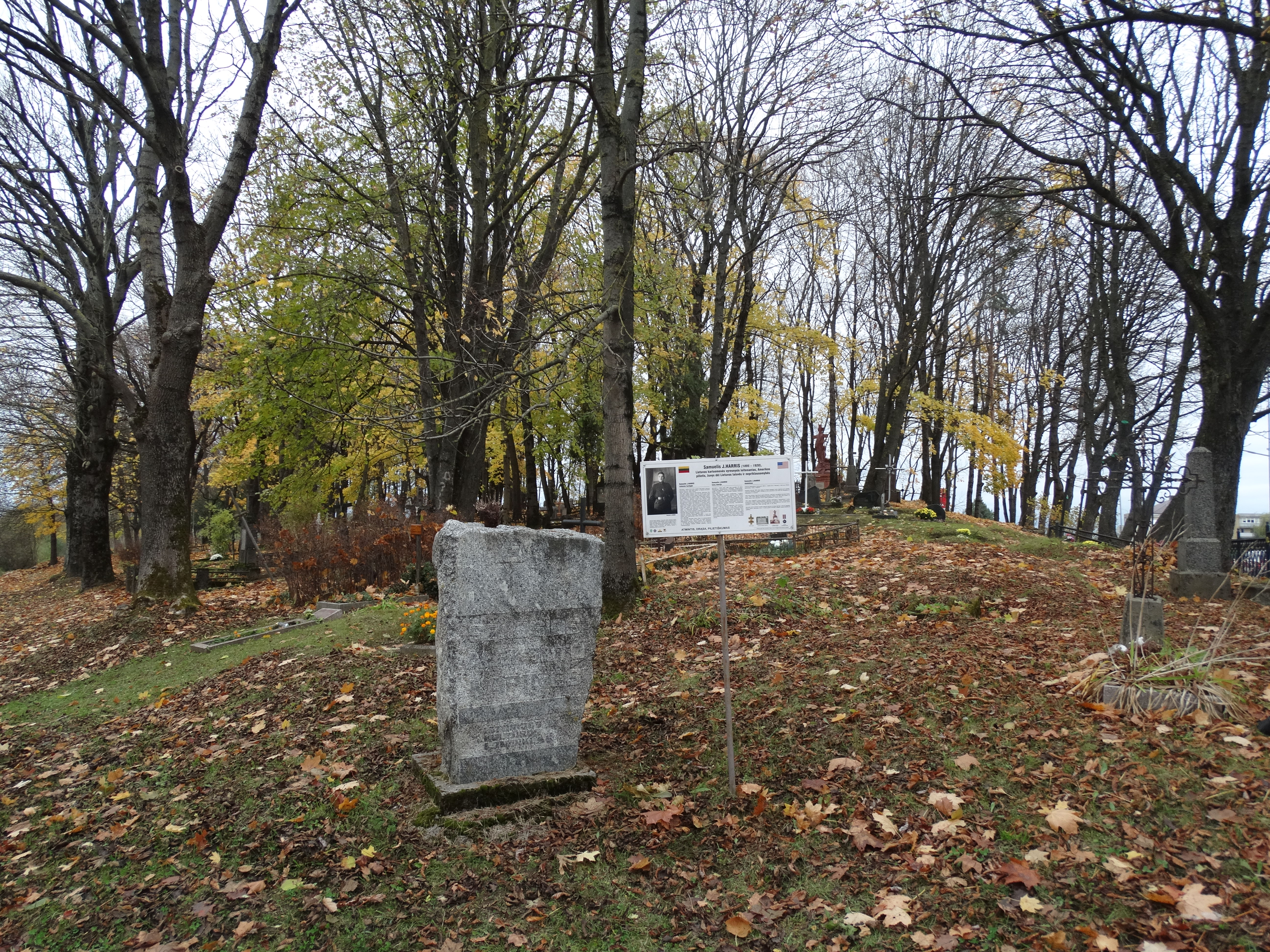 Information board of Samuel J. Harris in the old Aleksotas cemetery, Kaunas, Lithuania